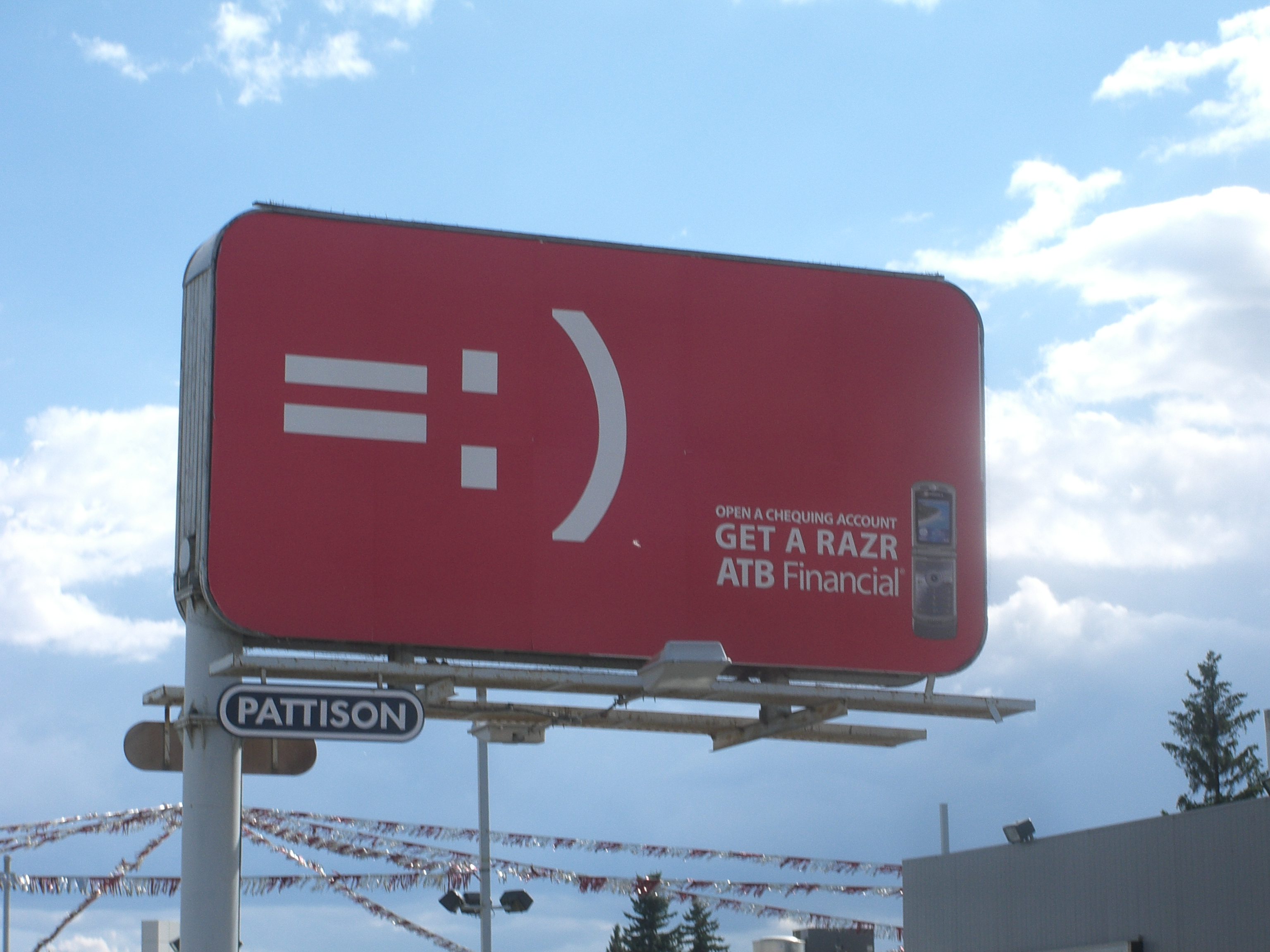 Myke Waddy, August 12th 2006, Edmonton Alberta Canada. near Northgate.